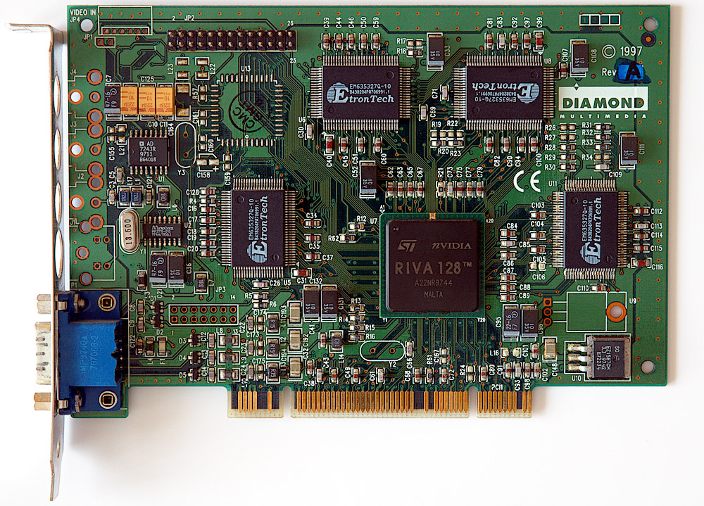 This image shows Diamond graphic card with NVidia Riva 128 chip, built in 1997.